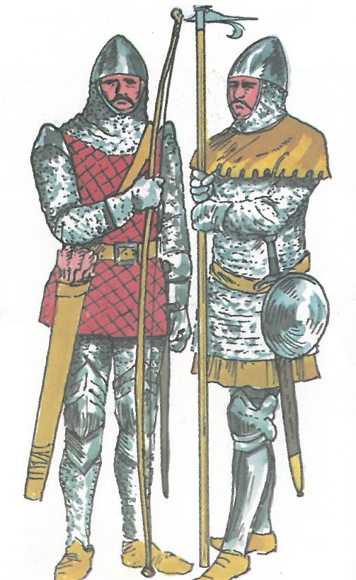 Drawing of 2 Lombard Soldiers